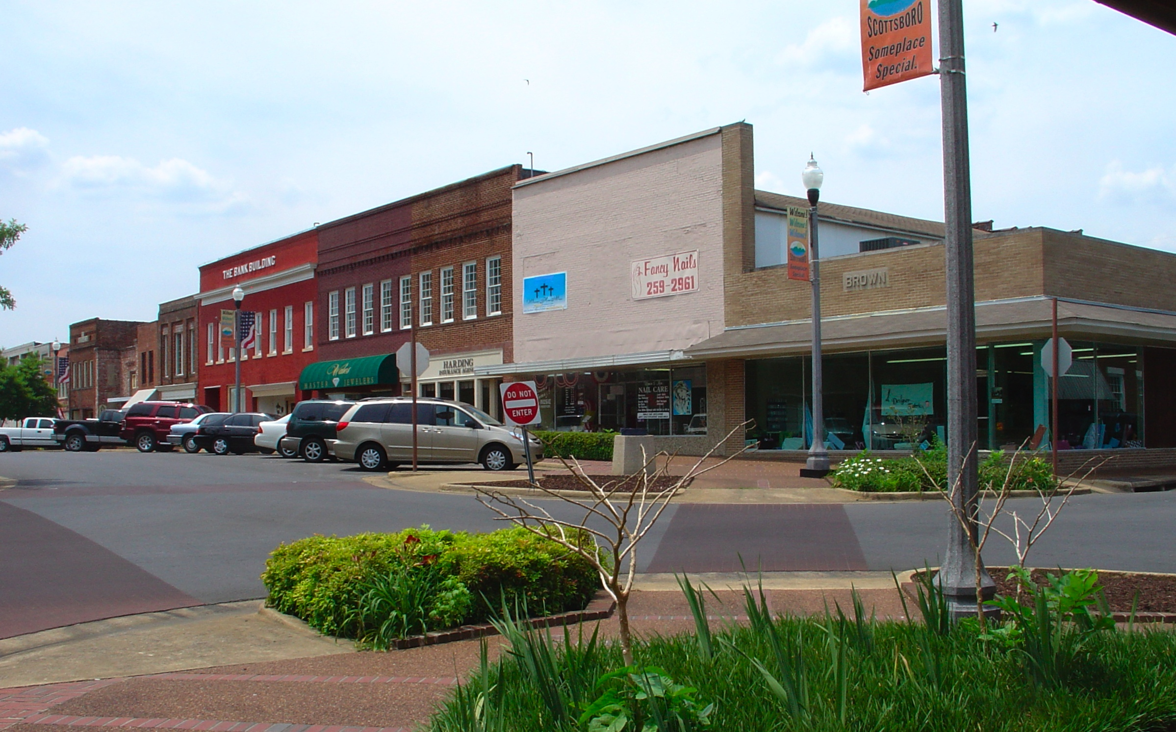 East Laurel Street in downtown Scottsboro, Alabama.